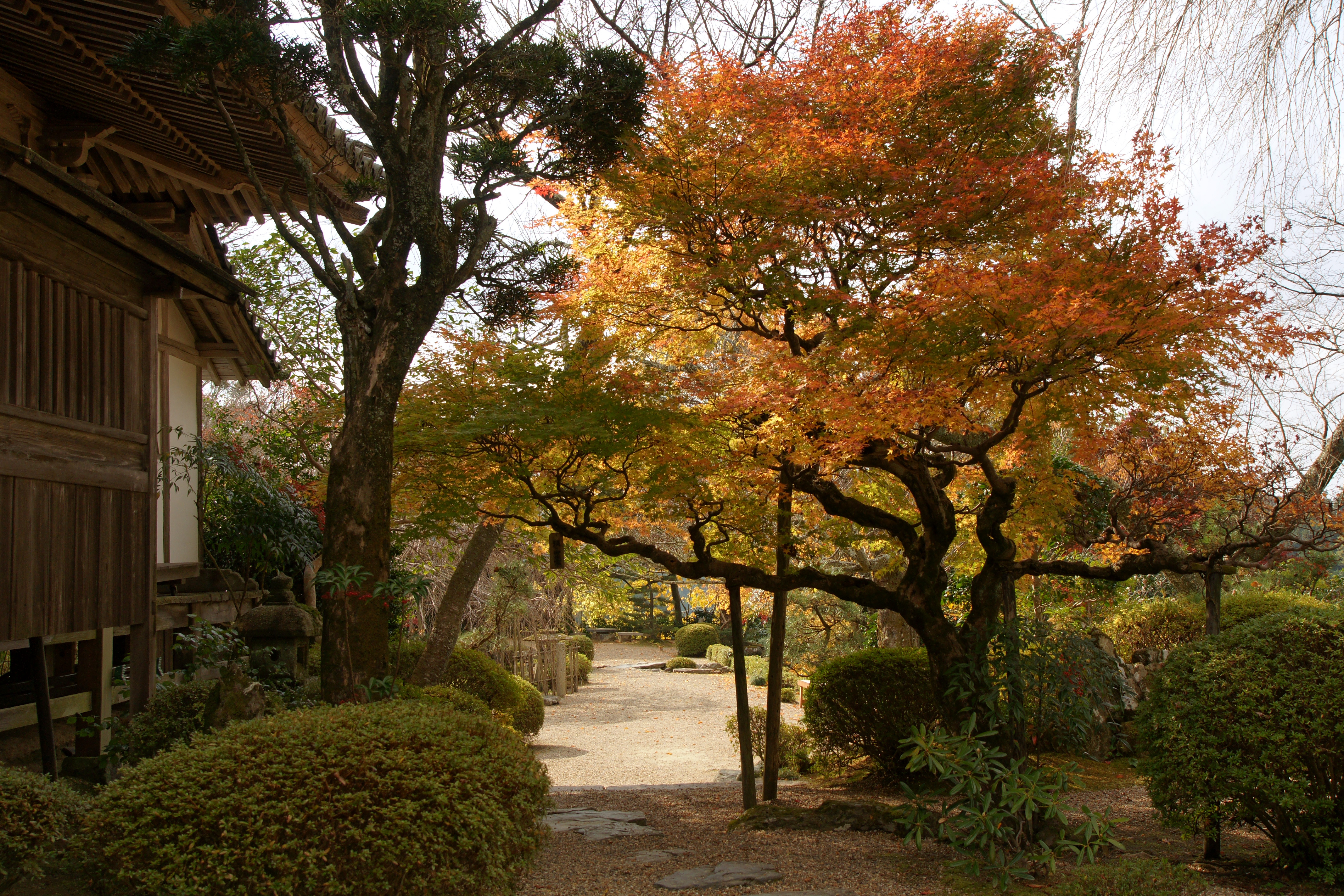 Chikurinin in Yoshino, Nara prefecture, Japan